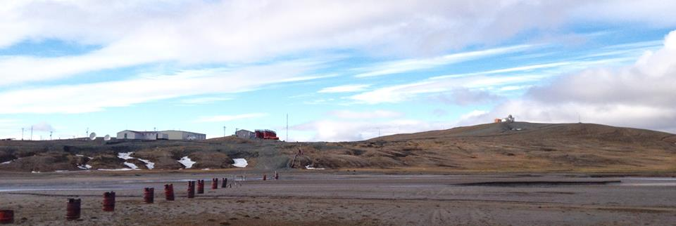 photo of the now abandon Mould Bay Weather Station